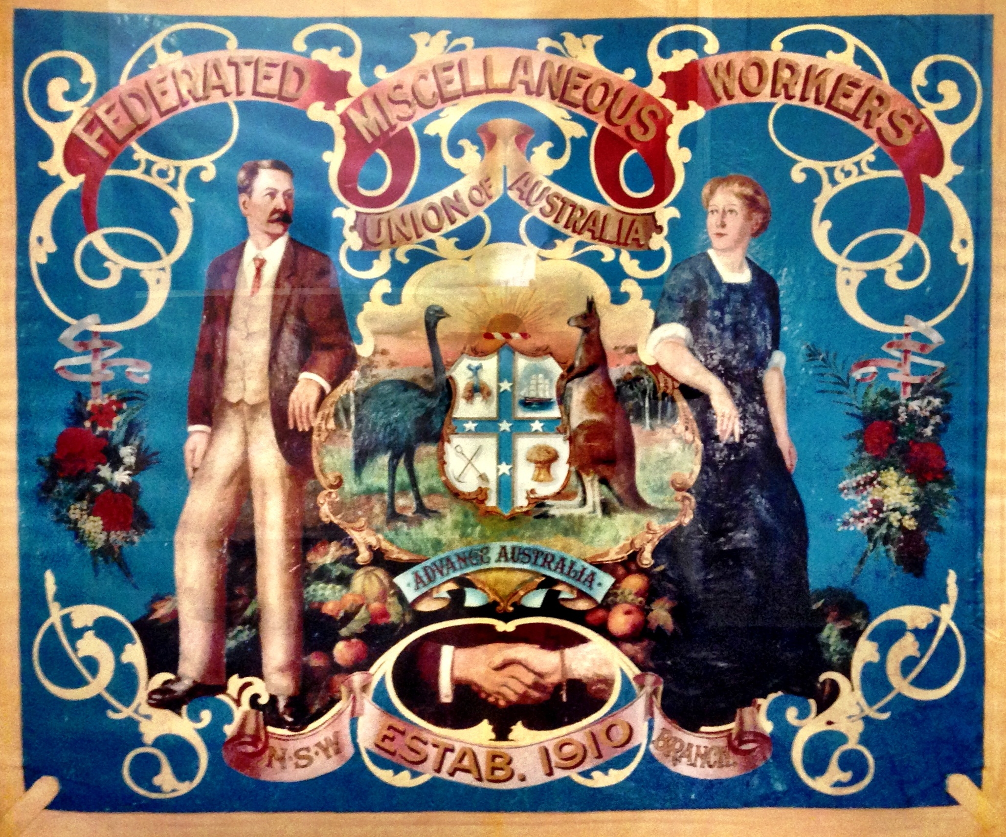 The Federated Miscellaneous Workers' Union (FMWU), commonly known as the 'Missos', was an Australian trade union which existed between 1915 and 1992.[2] It represented an extremely diverse and disparate range of occupations, but its core support came from workers employed in cleaning and security services.